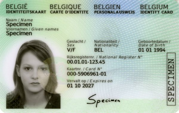 National identity card of Belgium (dutch)